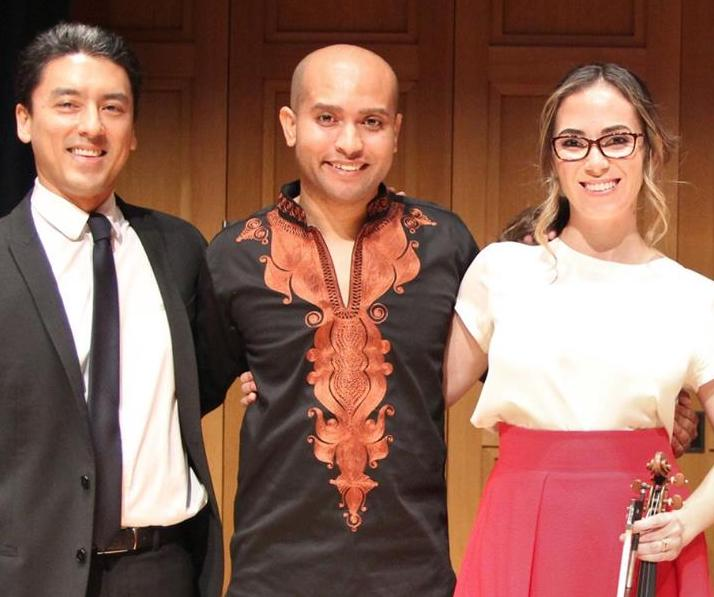 Derrick Spiva (center) with Salastina Music Society co-directors Kevin Kumar (left) and Maia Jasper White (right) in 2017.